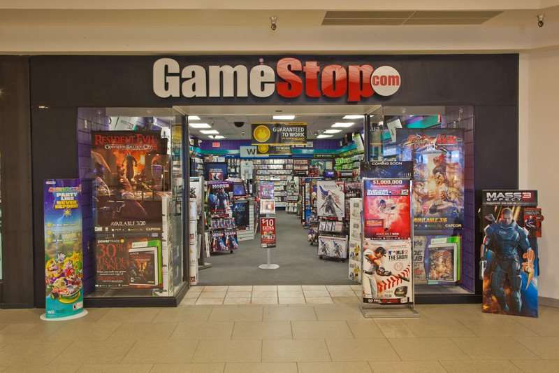 Gamestop